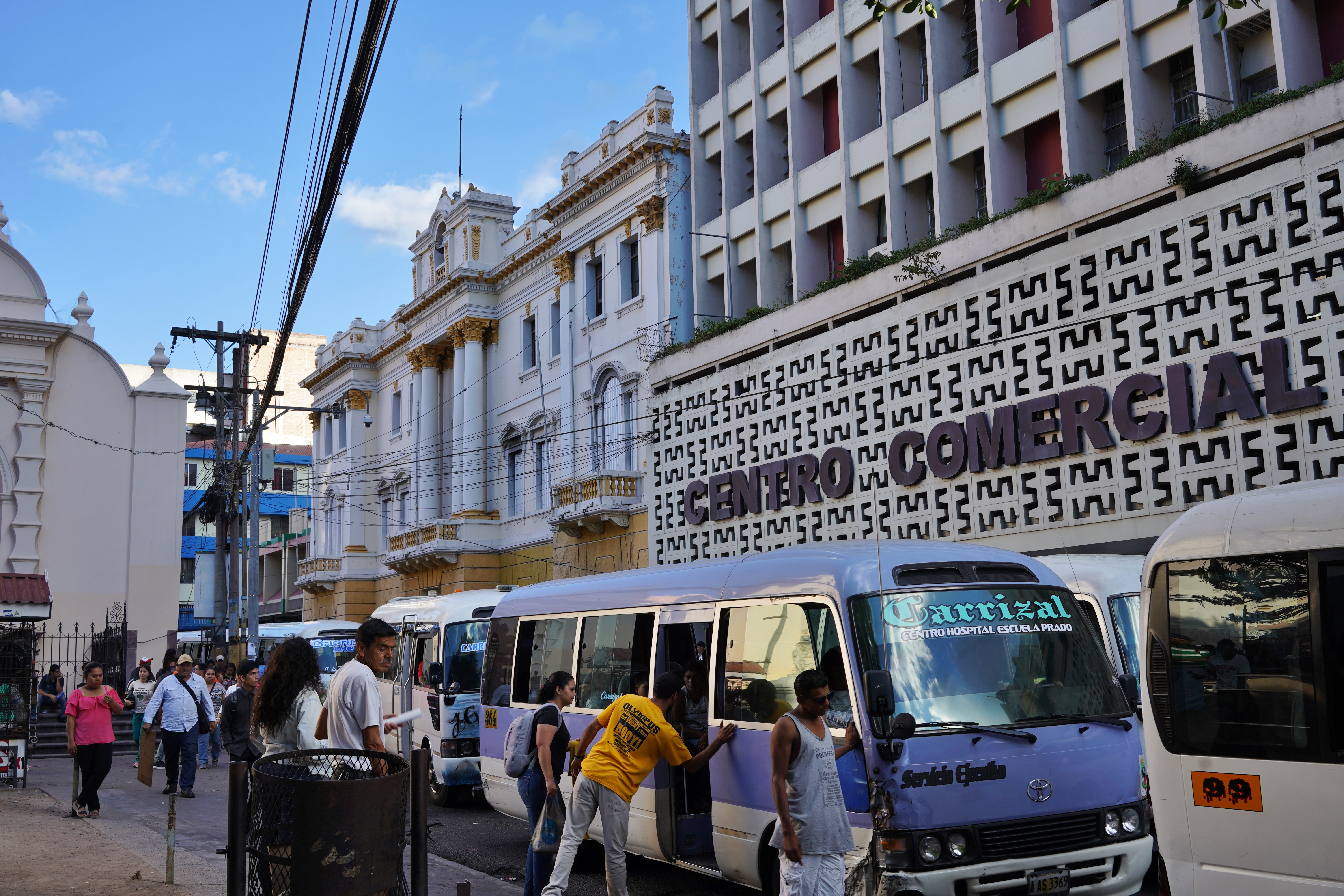 Este es el medio de transporte que usamos a diario los hondureños